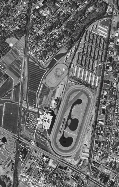 Aerial view of Garden State Park race track and stable area